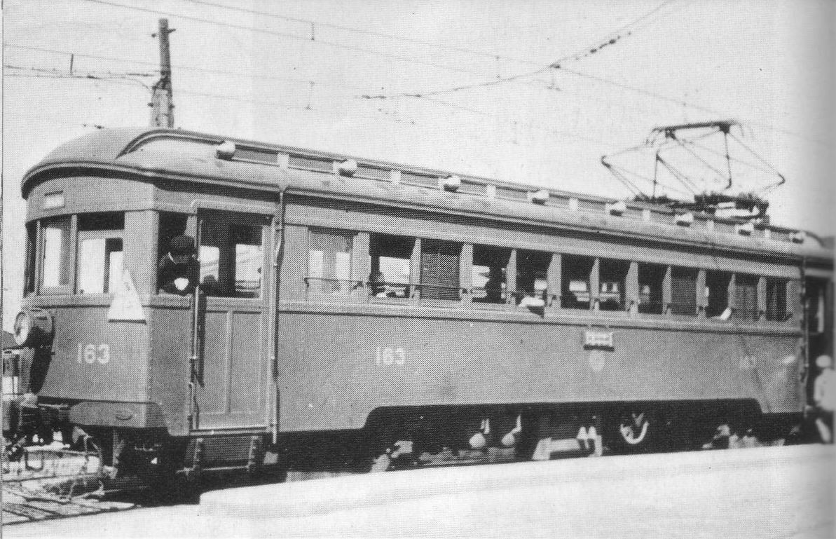 Keio Corporation #163. taken in 1937.